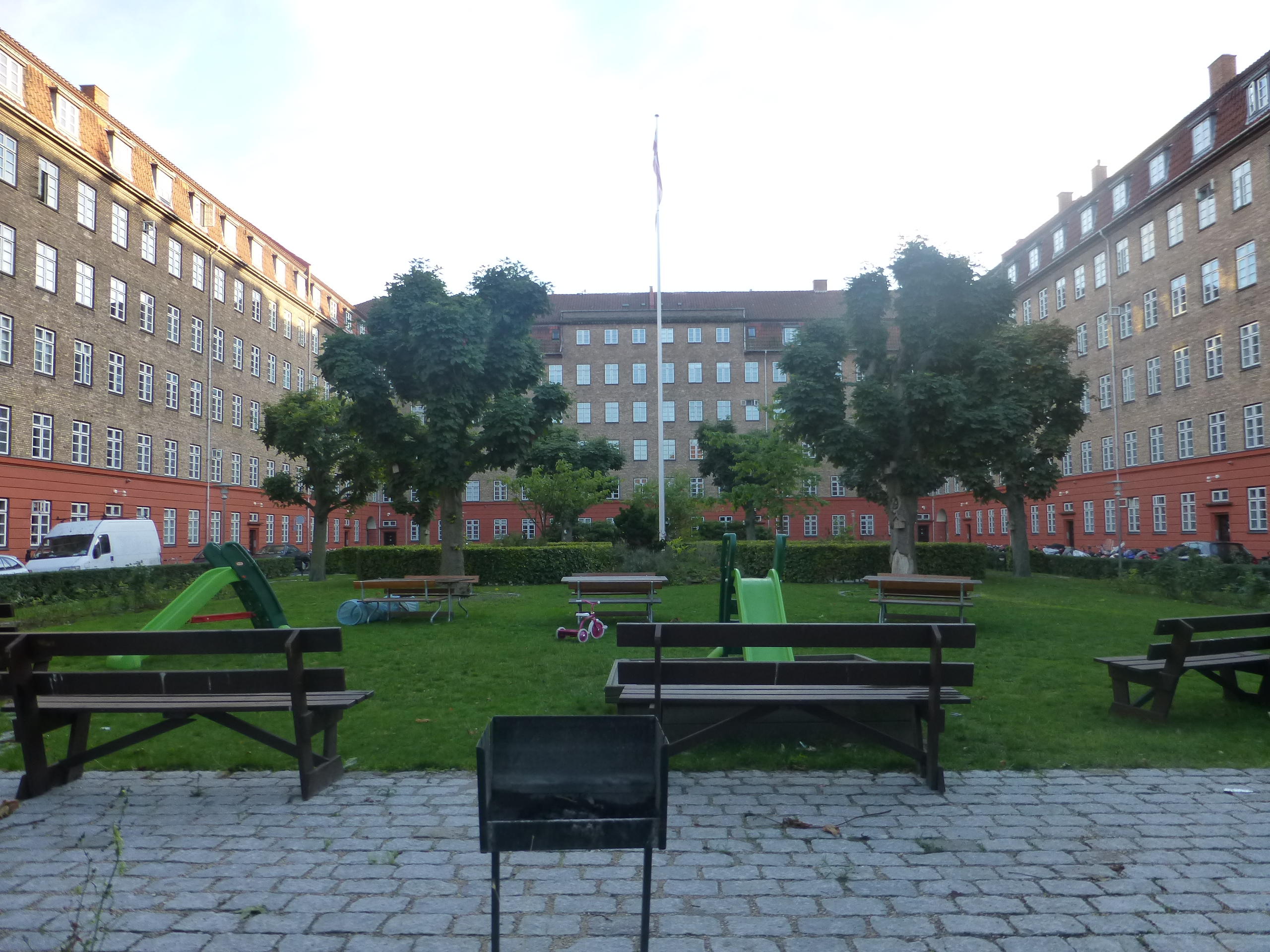 The square Hothers Plads in Nørrebro in Copenhagen.